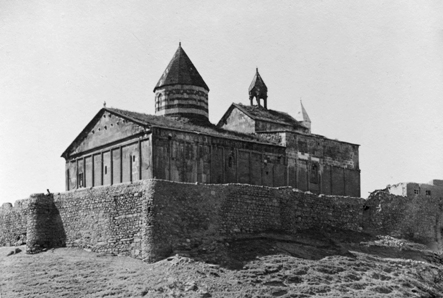 The Saint Bartholomew Armenian Monastery